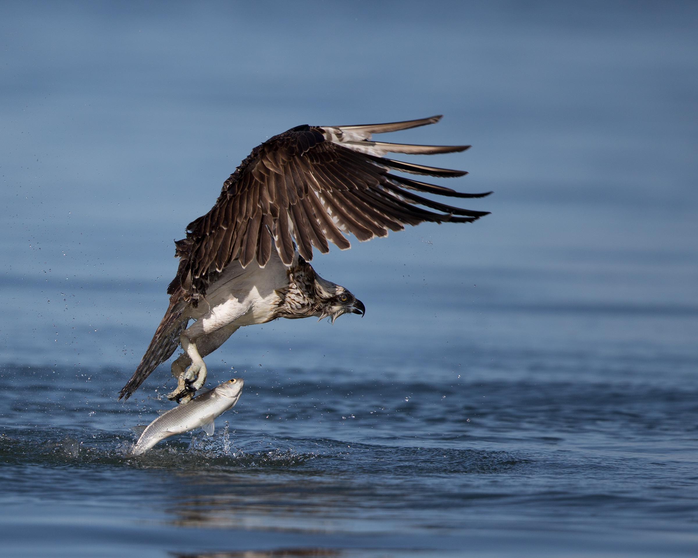 Eastern Osprey, Pandion Cristatus, with catch on the Peel Harvey Estuary Western Australia